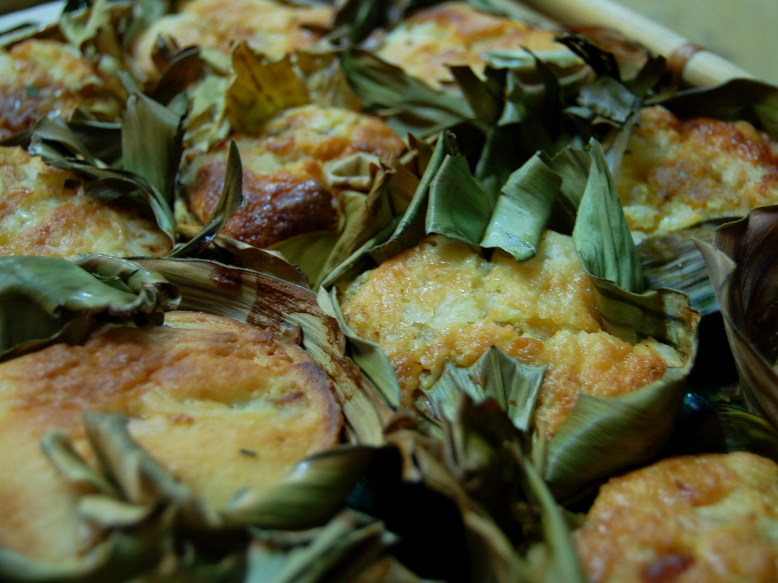 Ground water-soaked glutinous rice in coconut milk with slices of salted egg and baked in hot coals below and above (hence the term "bibingka approach") with toppings of grated coconut and kesong puti. Filipino pancake? Nope, it is our bibingka! :-D Nikon D40 (PRRM Electoral Conference, February 2010)